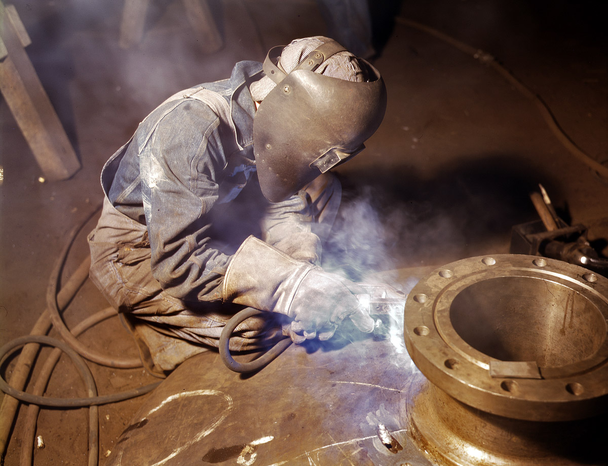 Combustion Engineering Co., Chattanooga. Welder making boilers for a ship.